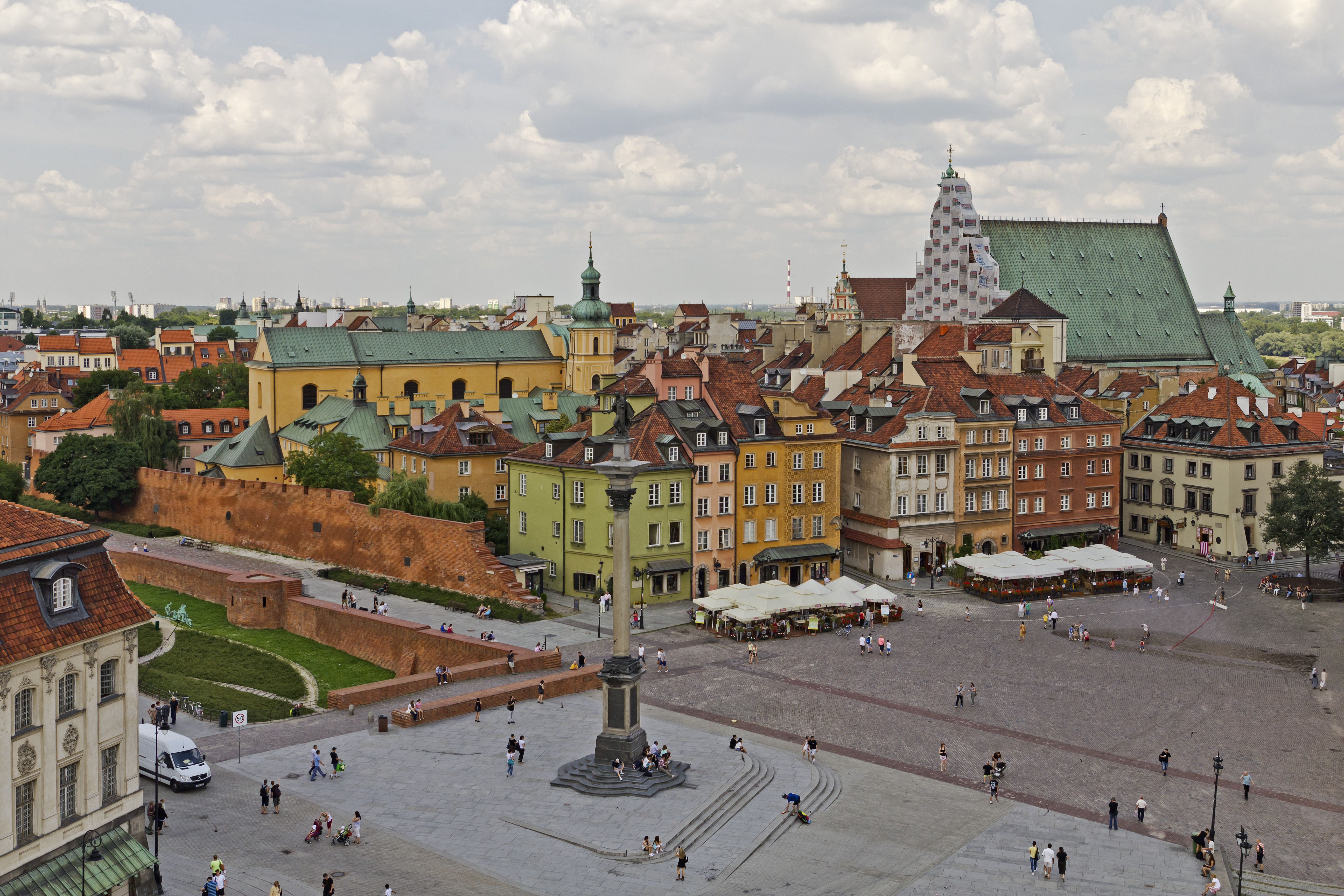 View from the St. Anne Church tower at Castle Square in the Old Town (Stare Miasto) in Warsaw (Poland)